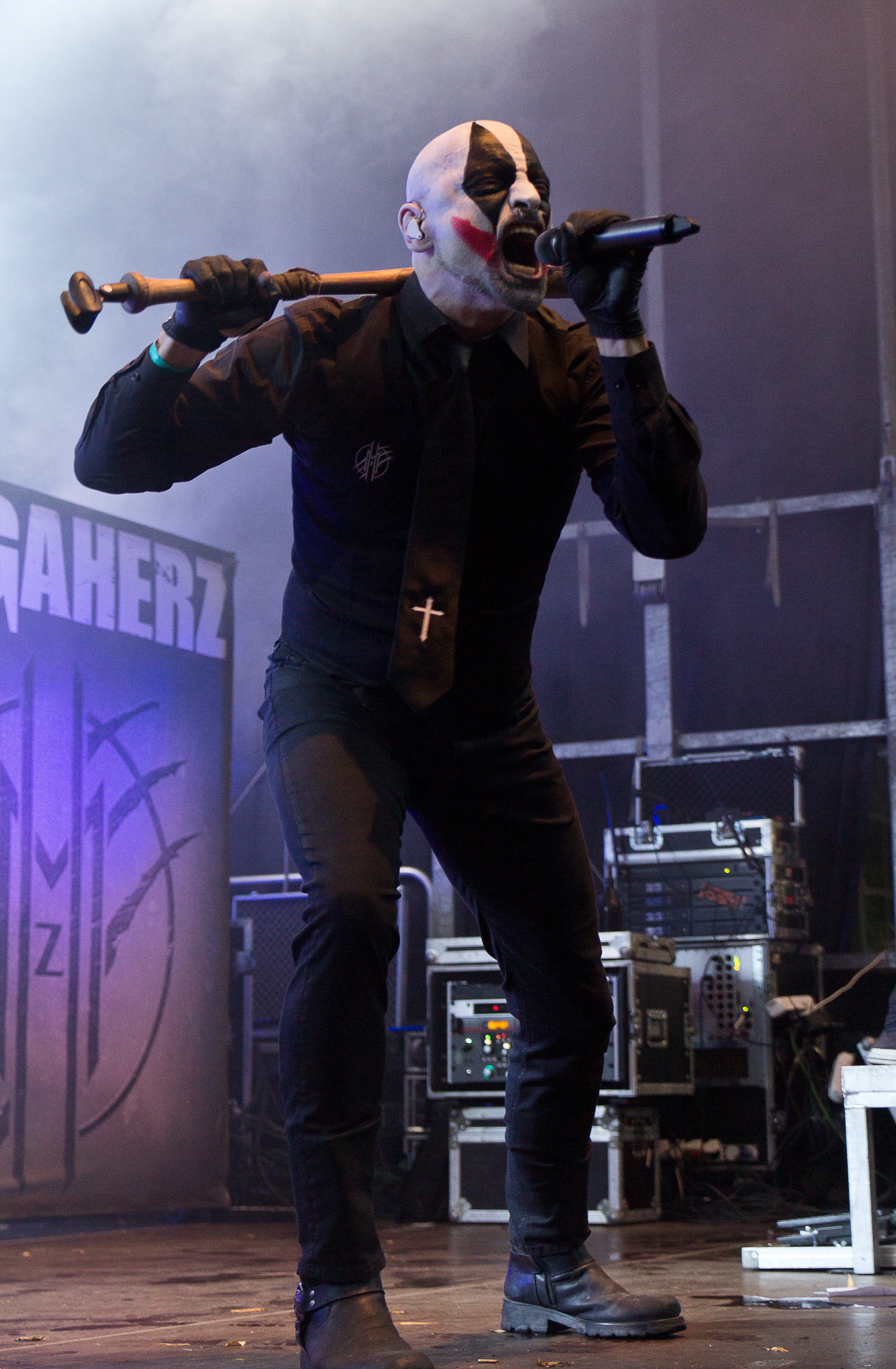 The German Neue Deutsche Härte band Megaherz at the Nocturnal Culture Night 11 2016 in Deutzen/Germany.